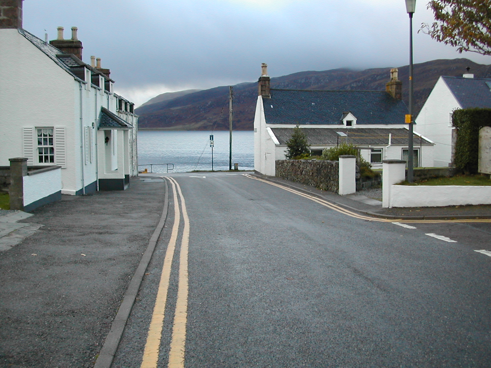 Nom du fichier : DSCN2524.JPG Taille du fichier : 714.4 Ko (731511 octets) Date : 2003/10/27 10:22:58 Taille de l'image : 1600 x 1200 pixels Résolution : 300 x 300 ppp Profondeur en bits : 8 bits/canal Attribut de protection : Désactivé Attribut Masqué : Désactivé ID de l'appareil : N/A Appareil : E775 Mode de qualité : FINE Mode de mesure : Multizones Mode d'exposition : Programme Auto Speed Light : Non Distance Focale : 5.8 mm Vitesse d'obturation : 1/148.8 seconde Ouverture : F2.8 Correction d'exposition : 0 IL Balance des blancs : Auto Objectif : Intégré Mode Synchro-Flash : Premier Rideau Différence d'exposition : N/A Programme Décalable : N/A Sensibilité : Auto Renforcement de la netteté : Auto Type d'image : Couleur Mode Couleur : N/A Saturation : N/A Contrôle Saturation : N/A Compensation des tons : Normal Latitude (GPS) : N/A Longitude (GPS) : N/A Altitude (GPS) : N/A